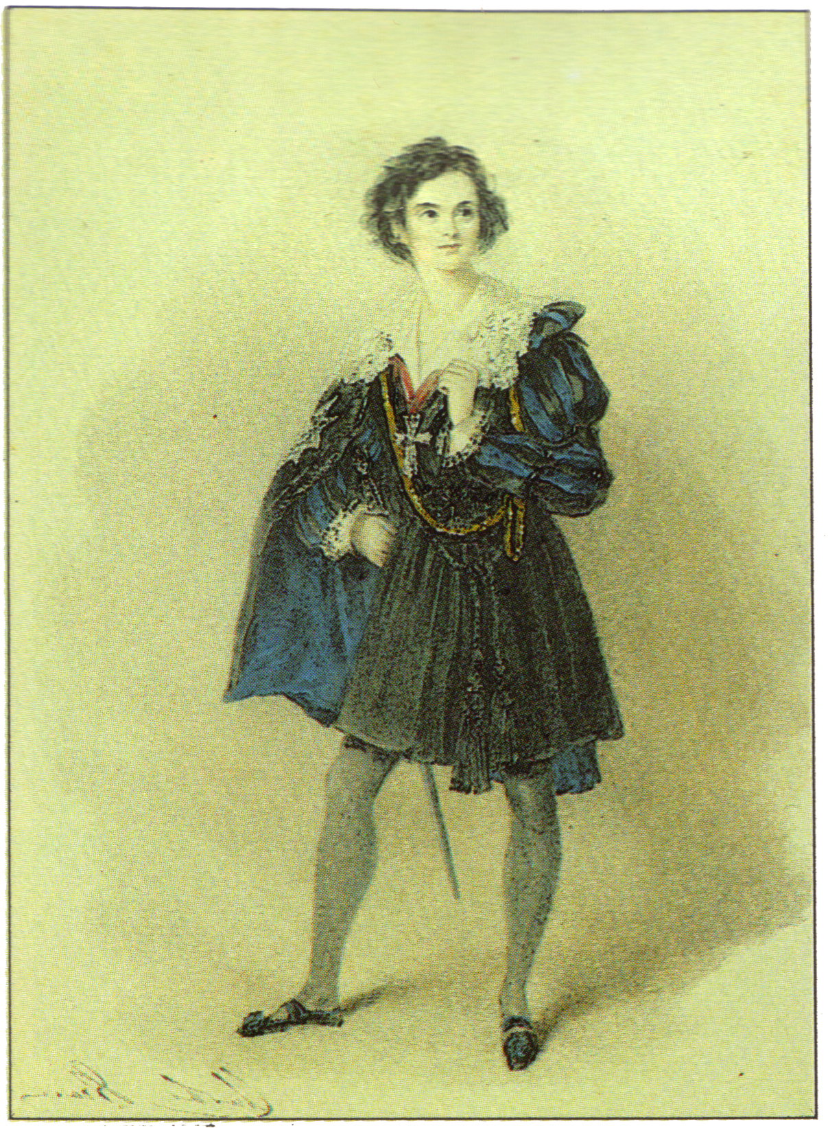 English actor Charles Kean as Hamlet in 1838